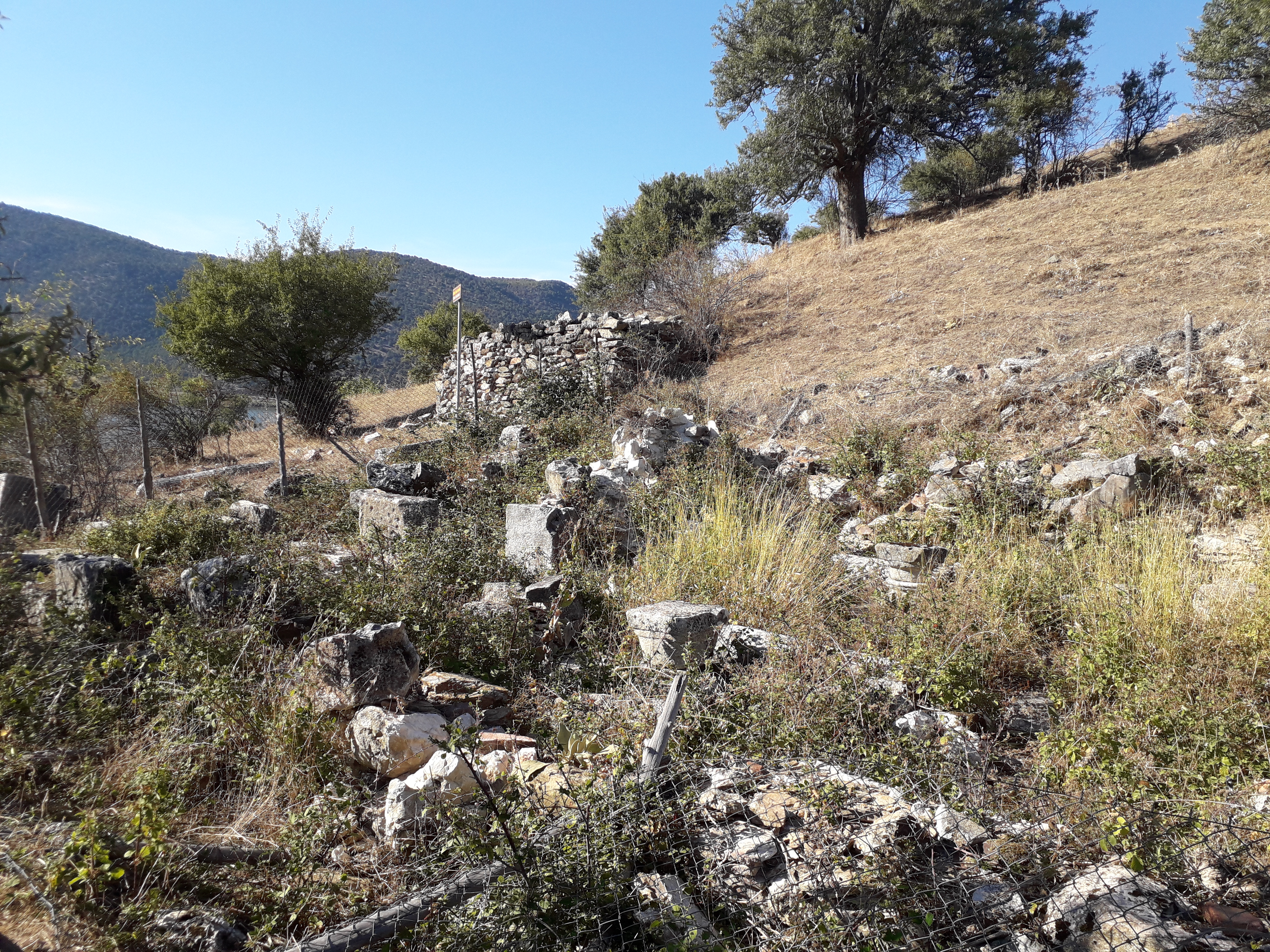 St. Apostoli, Ahil